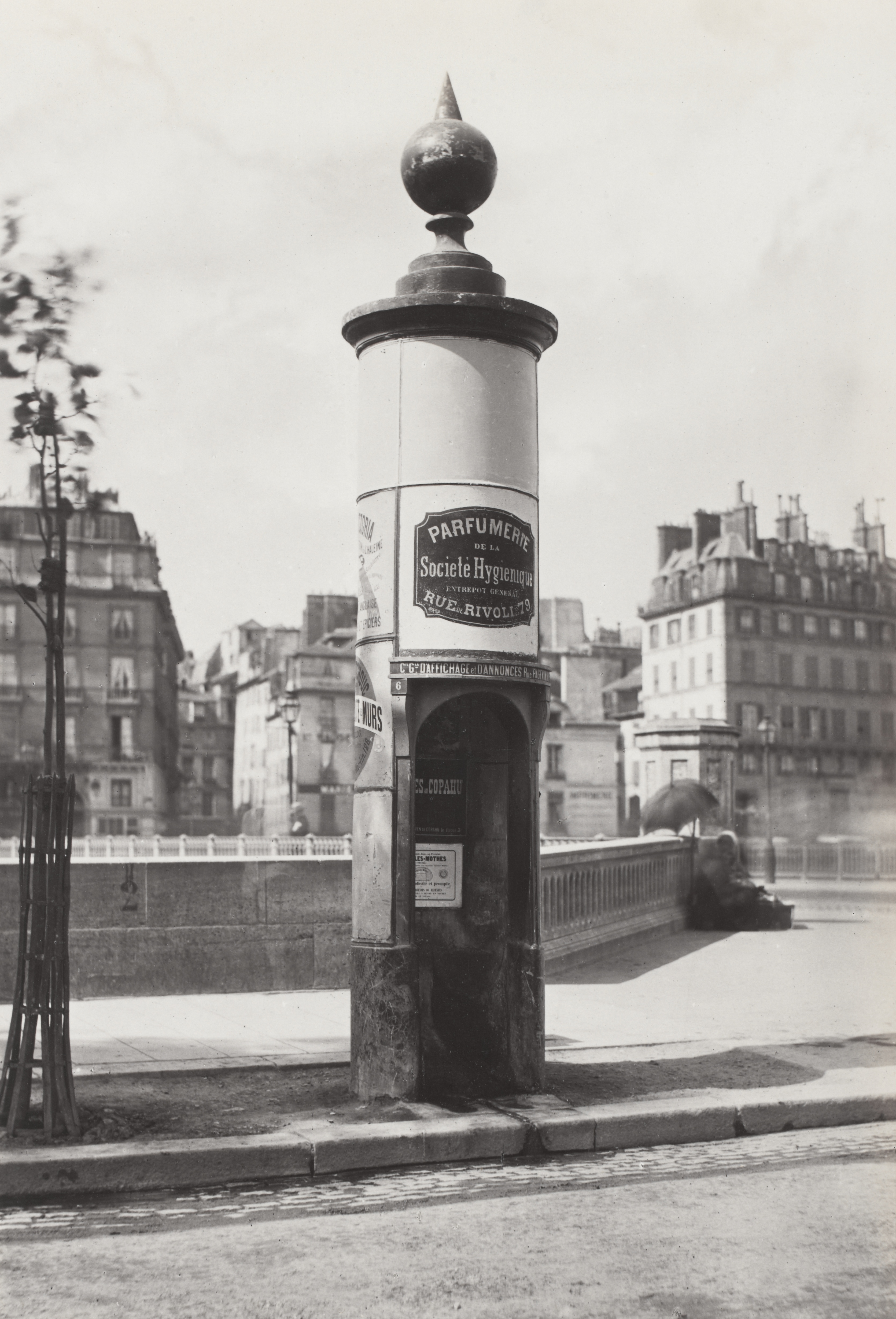 Single stall masonry urinal mounted with globe, advertising on sides, on path, balustrade and buildings in background.